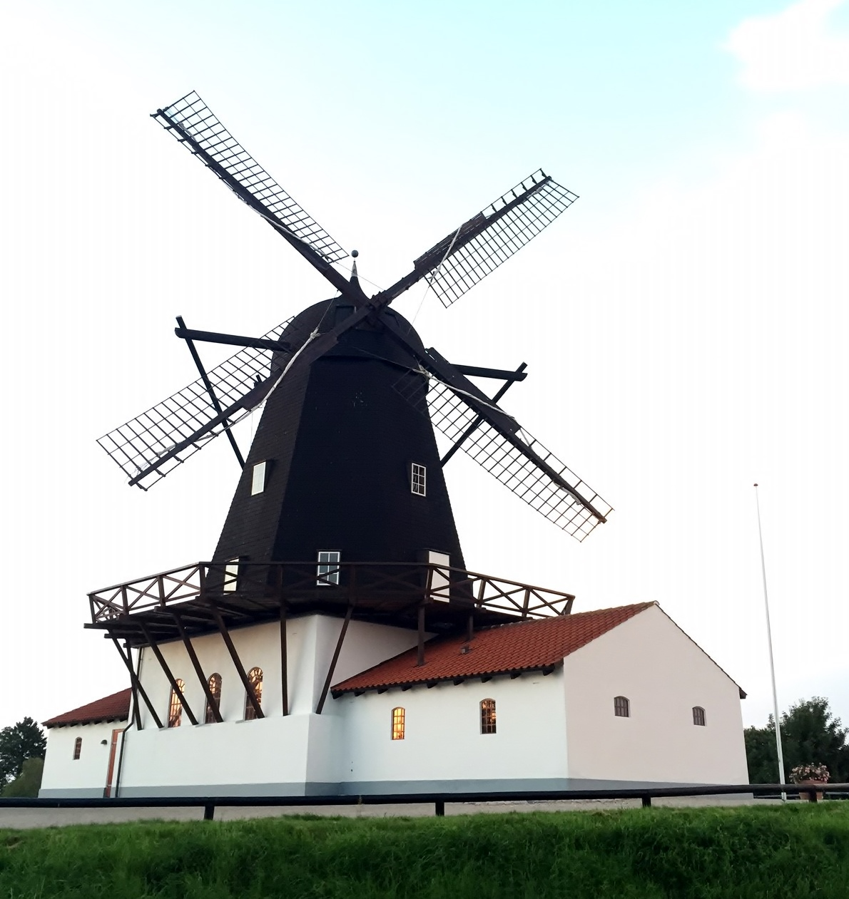 Baunhøj Mølle, dutch style mill in Grenaa, Denmark